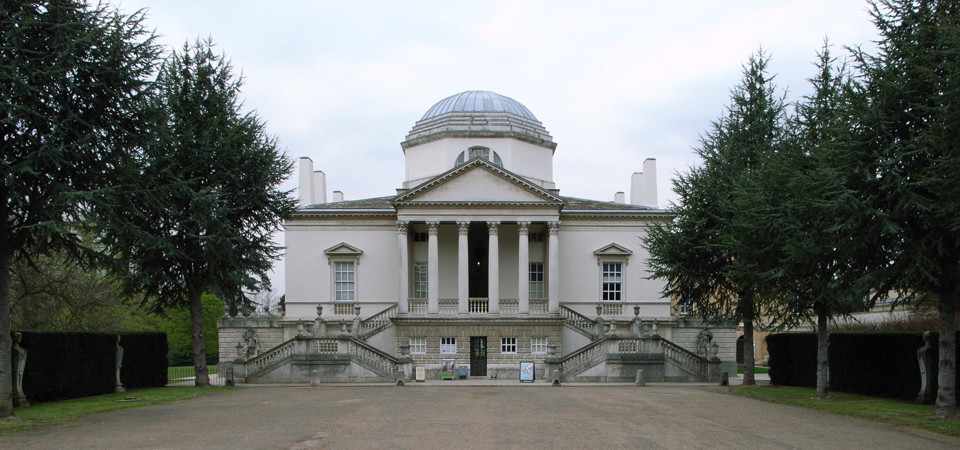 Chiswick House (1725-29) by Lord Burlington